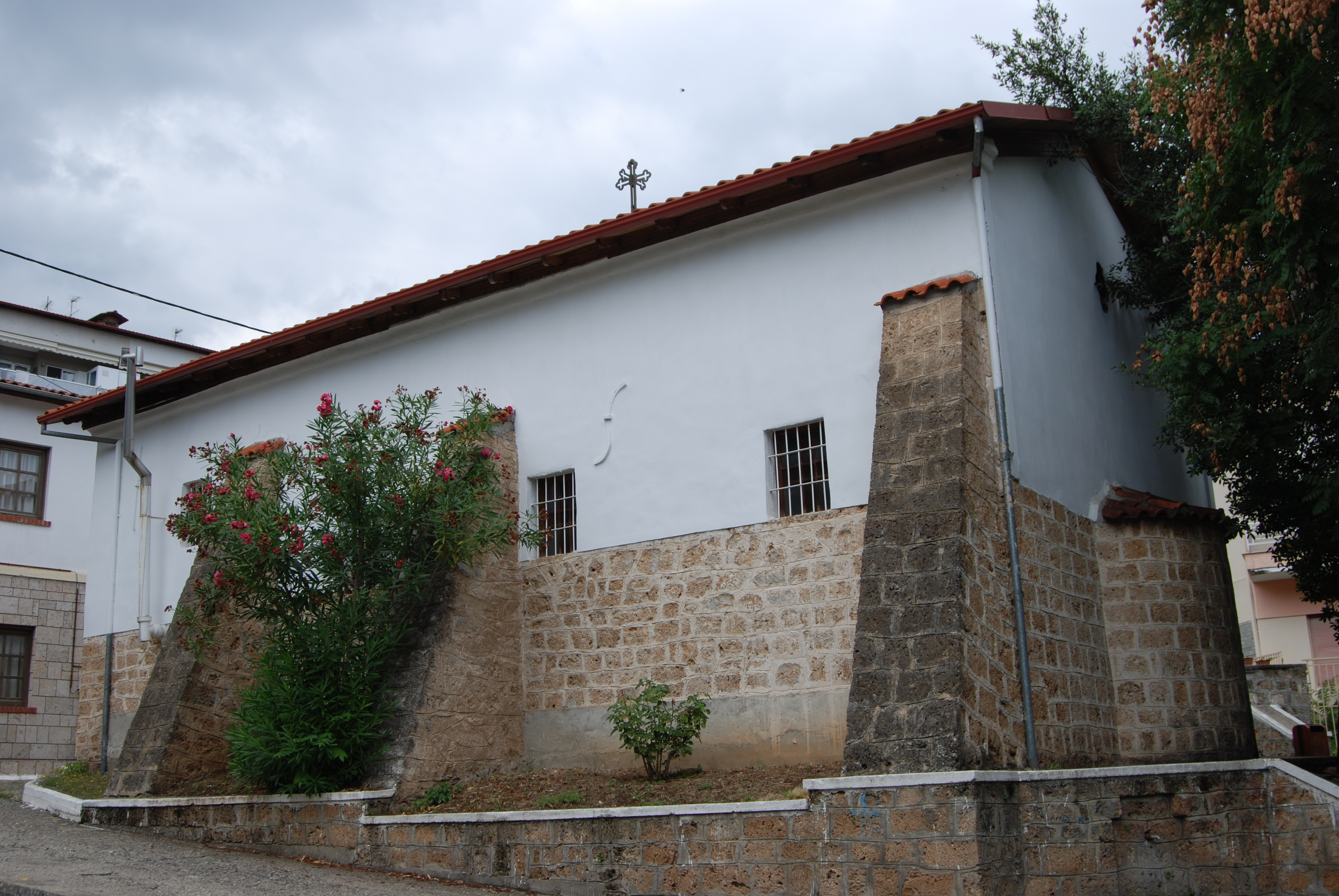 Buildings in Naousa